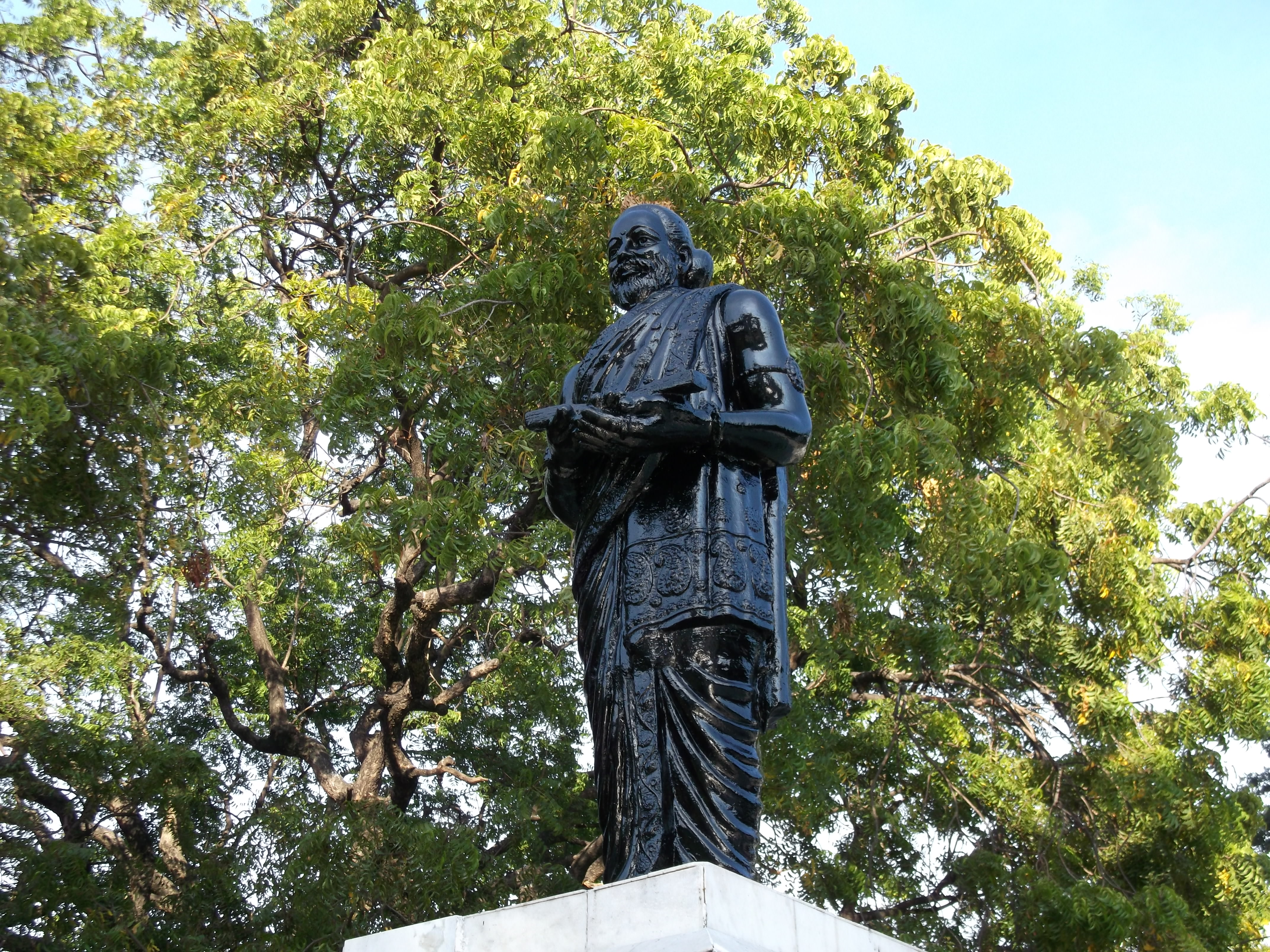 Marina Beach, Kambar statue, taken on 2-Feb-2013 afternoon